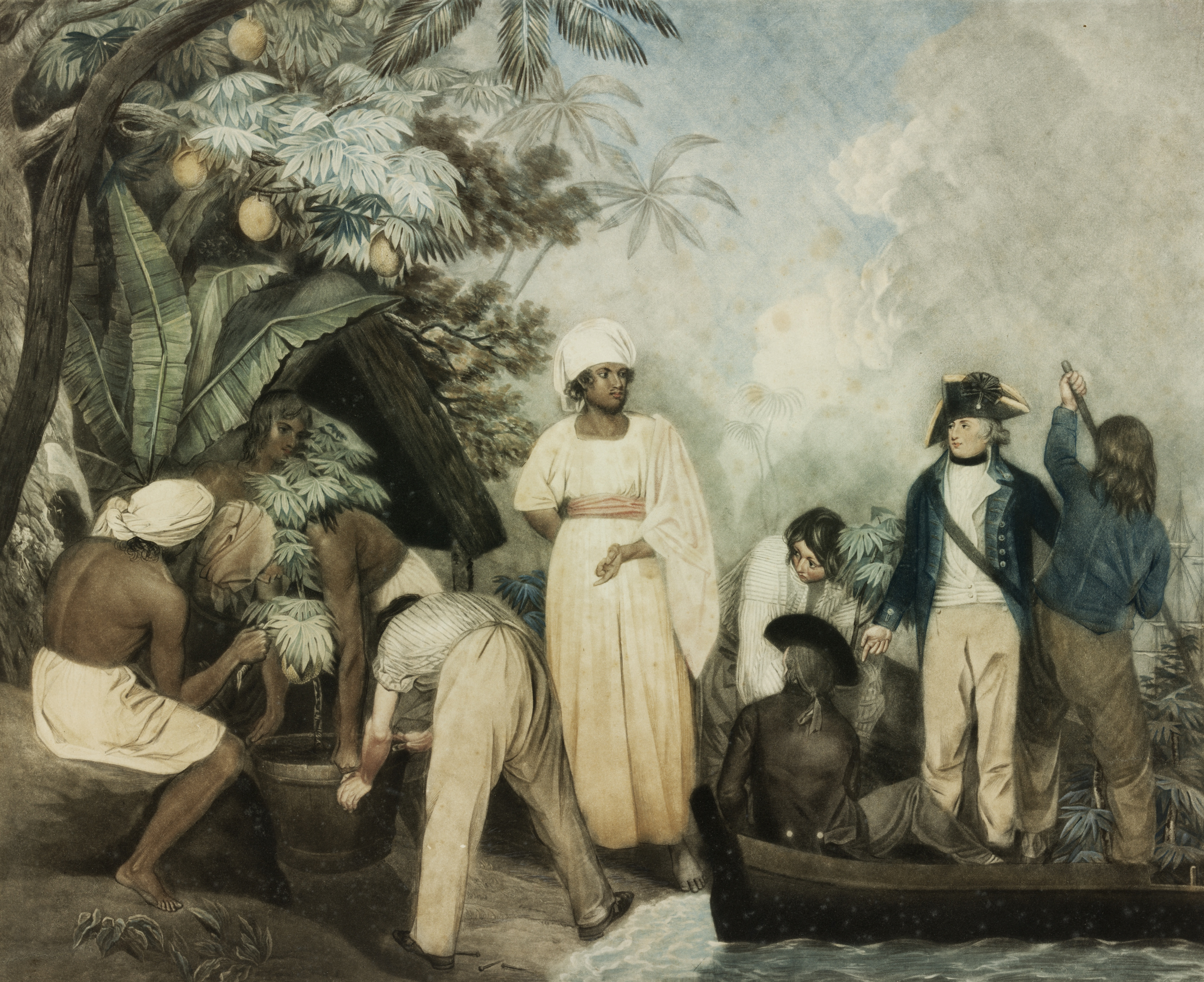 Transplanting of the bread-fruit trees from Otaheite. Painted and engraved by T Gosse. London, T Gosse 1796.